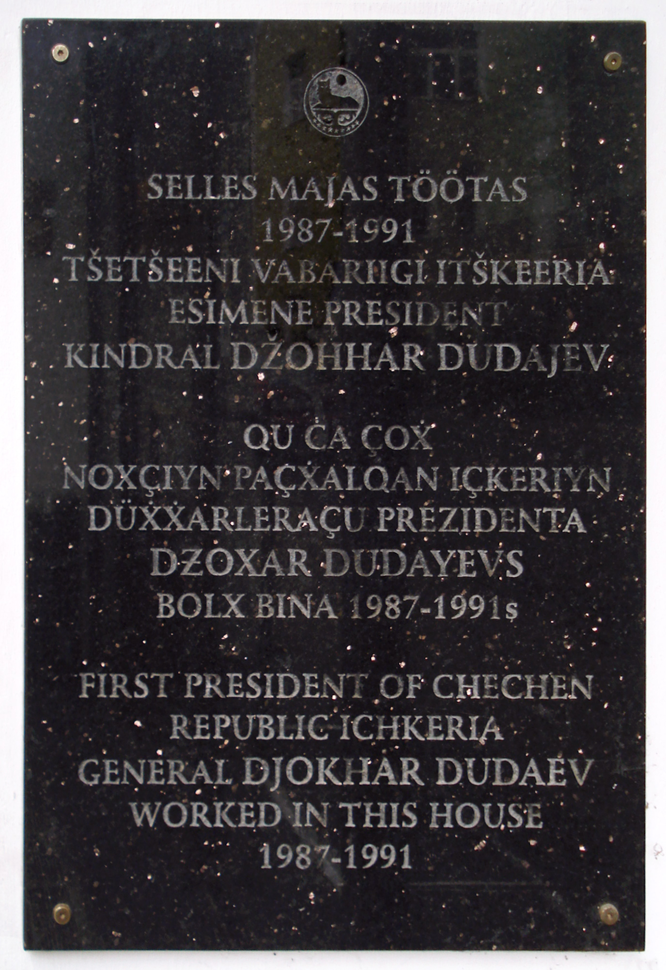 Memorial plaque marks the place of office of Dzhokhar Dudayev in the former Headquarters of the Soviet Army, now Barclay hotel